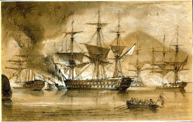 "The Scipion on entering the harbour ran aboard one of the brulots," one of 12 sketches being views of the Battle of Navarin, black and white chalk, by the British artist George Philip Reinagle. 230 mm x 363 mm. Courtesy of the British Museum, London. [1]